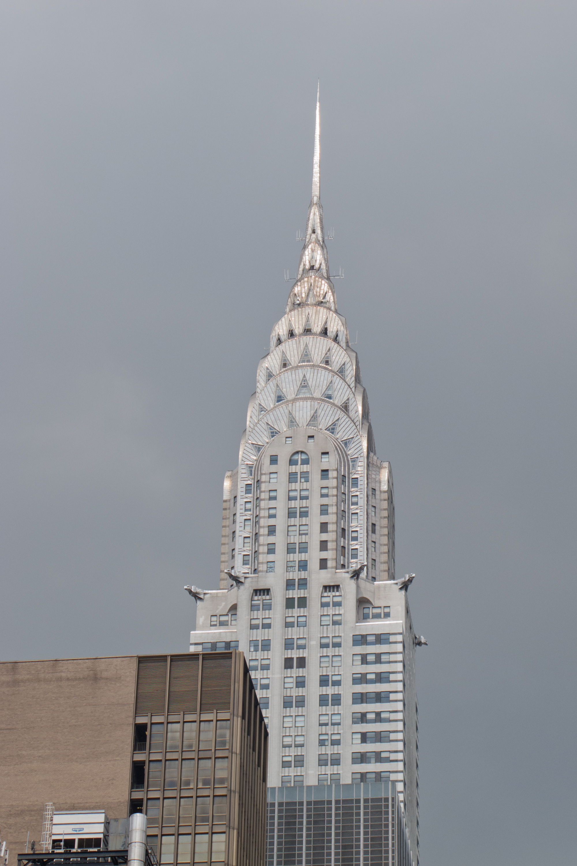 Chrysler Building, New York, United States.